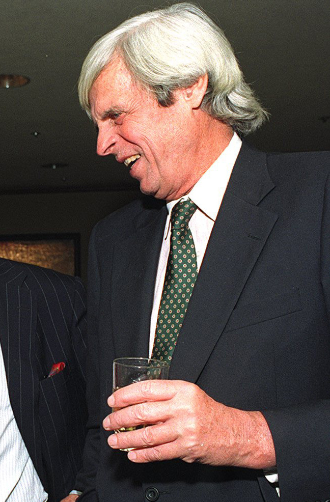 Detail of a 1993 photograph by Nancy Wong, showing the writer George Plimpton (1927–2003).